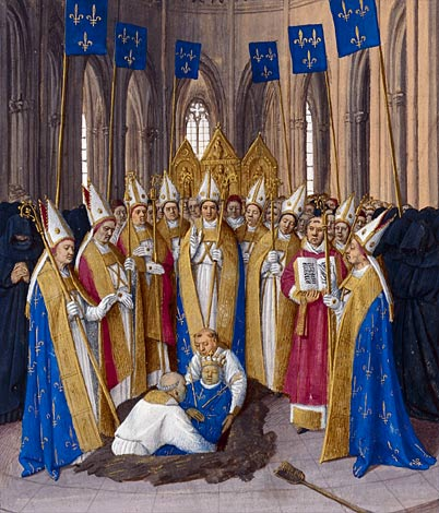 Funeral of Philip IV, king of France